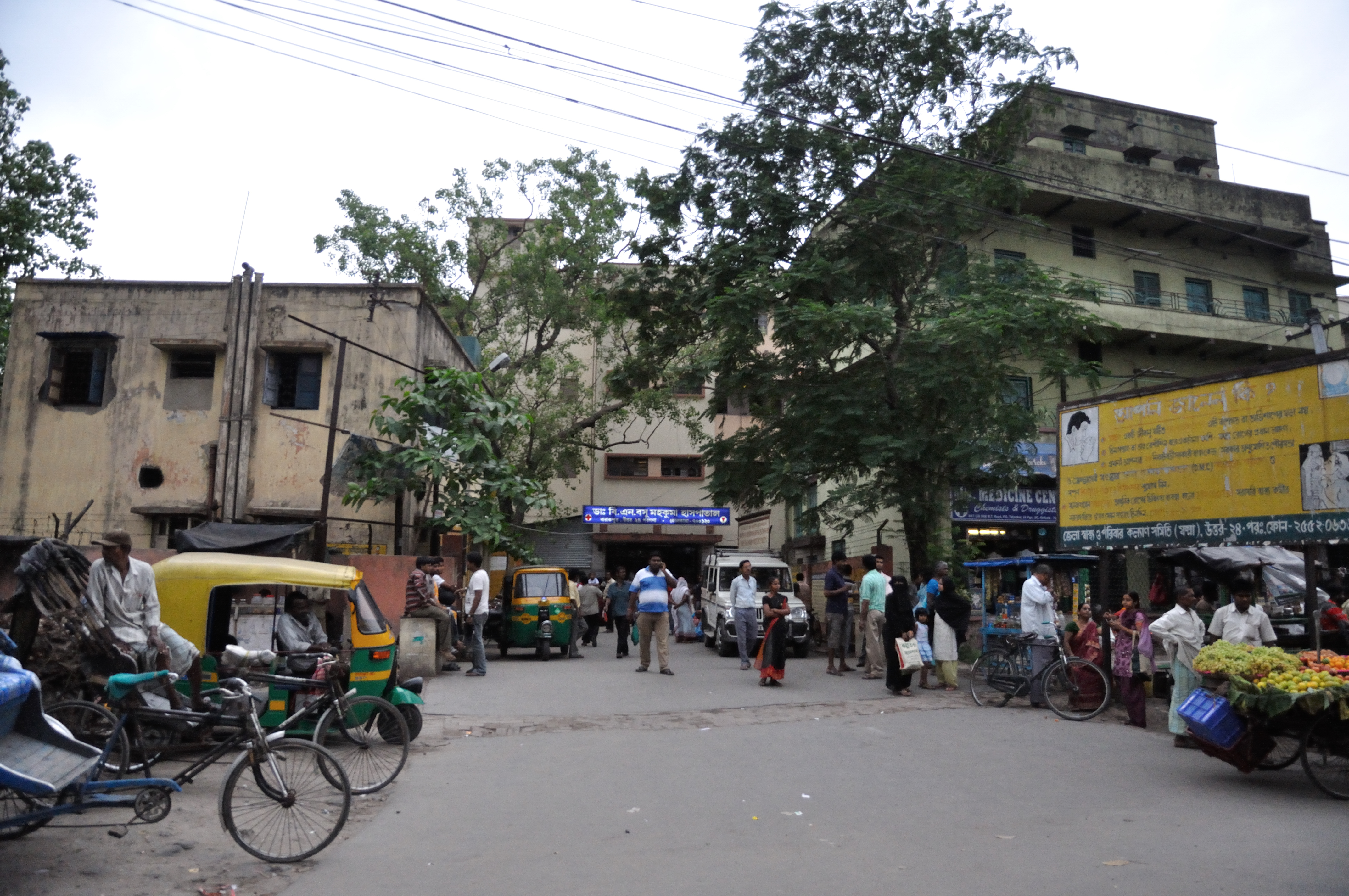 photographed in greater Kolkata.